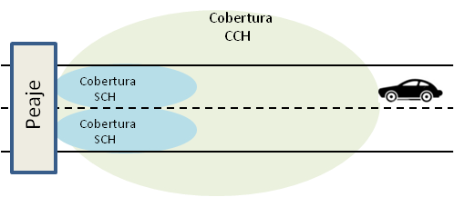 Imagen Peaje